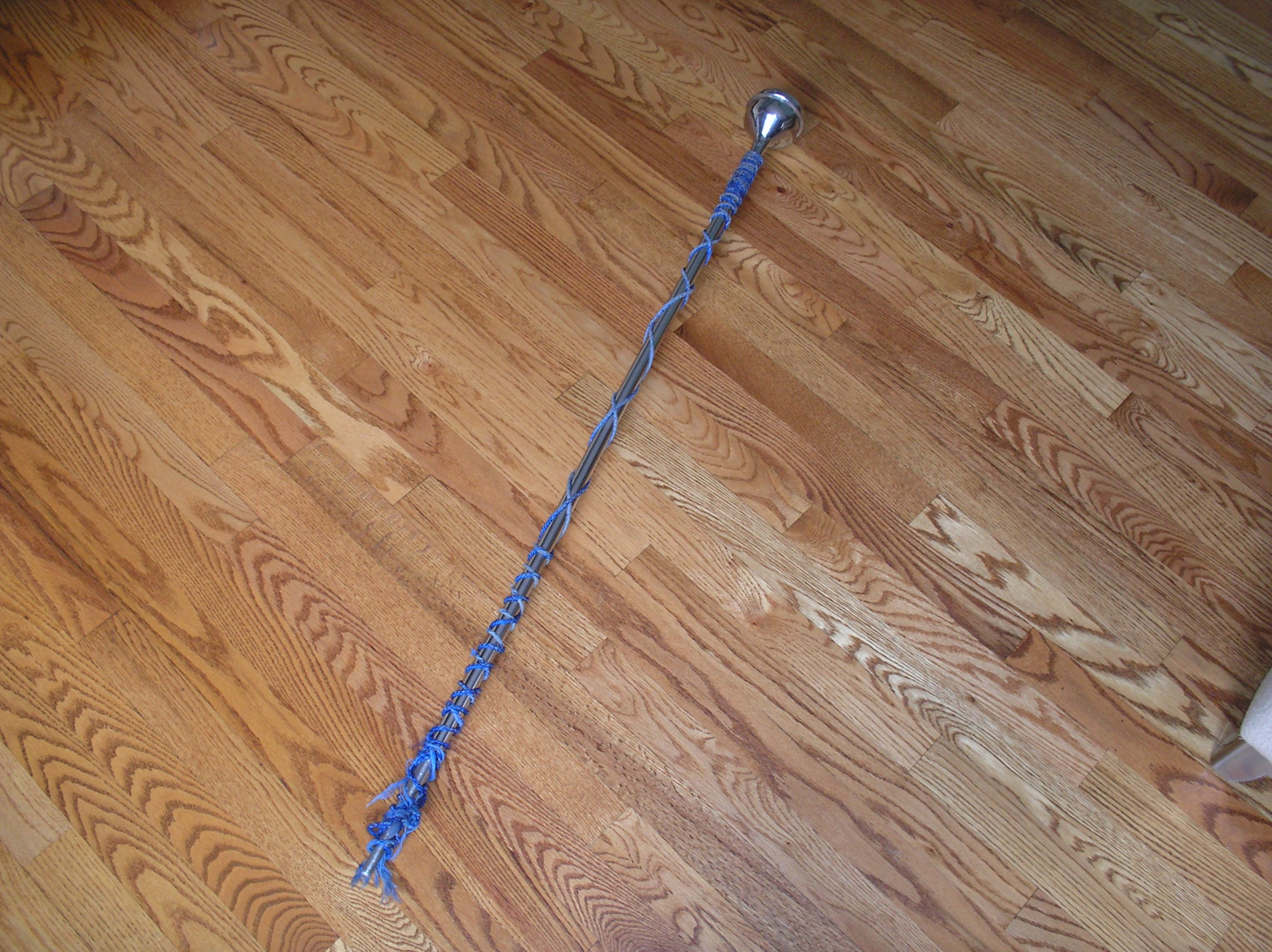 A typical mace, used by a [ major drum major]